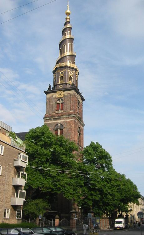 Vor Frelser Kirke.